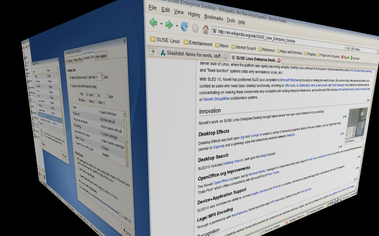 SLED 10 with XGL enabled